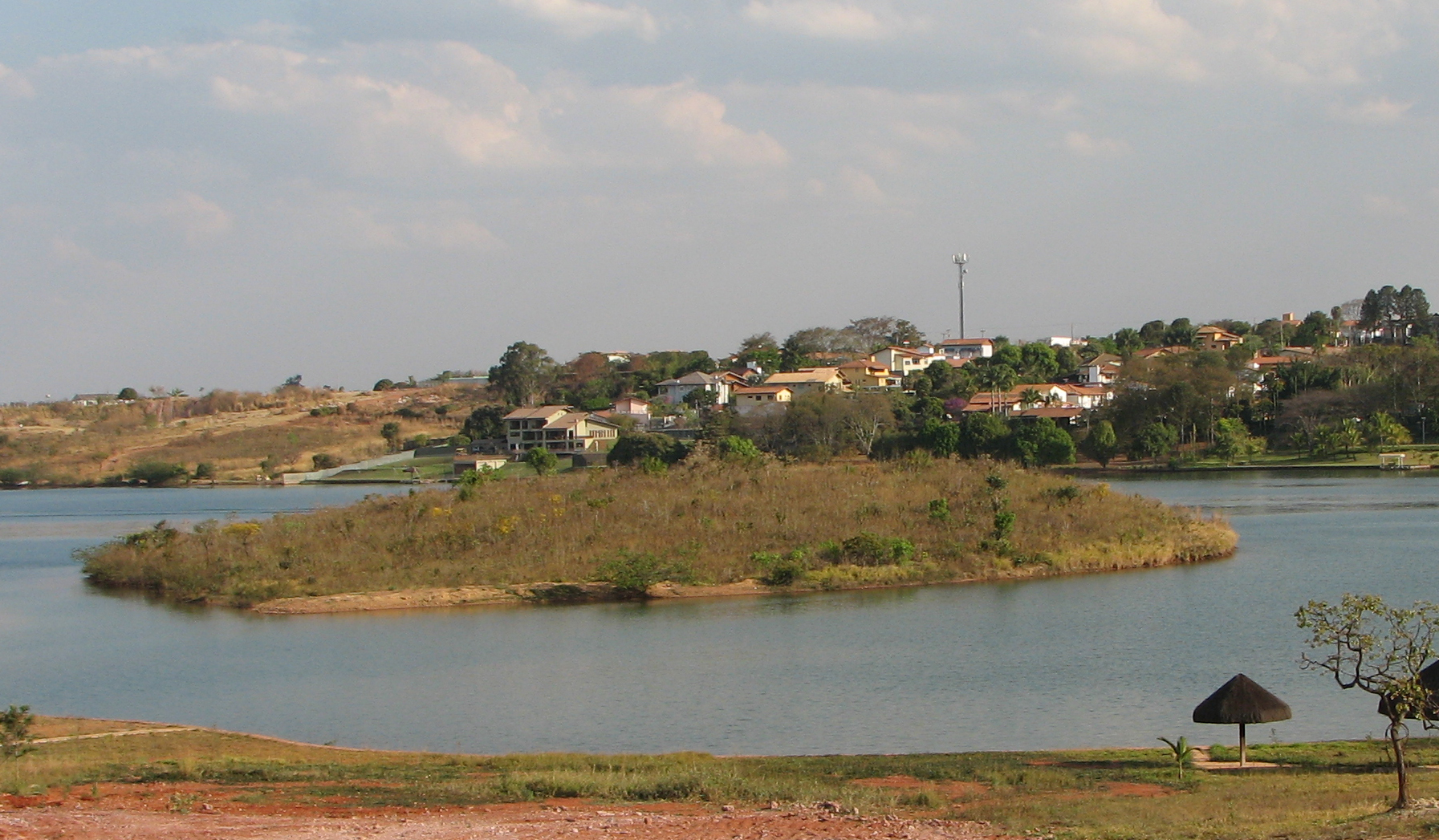 Tha Paranoa Island in Brasilia, Brazil.